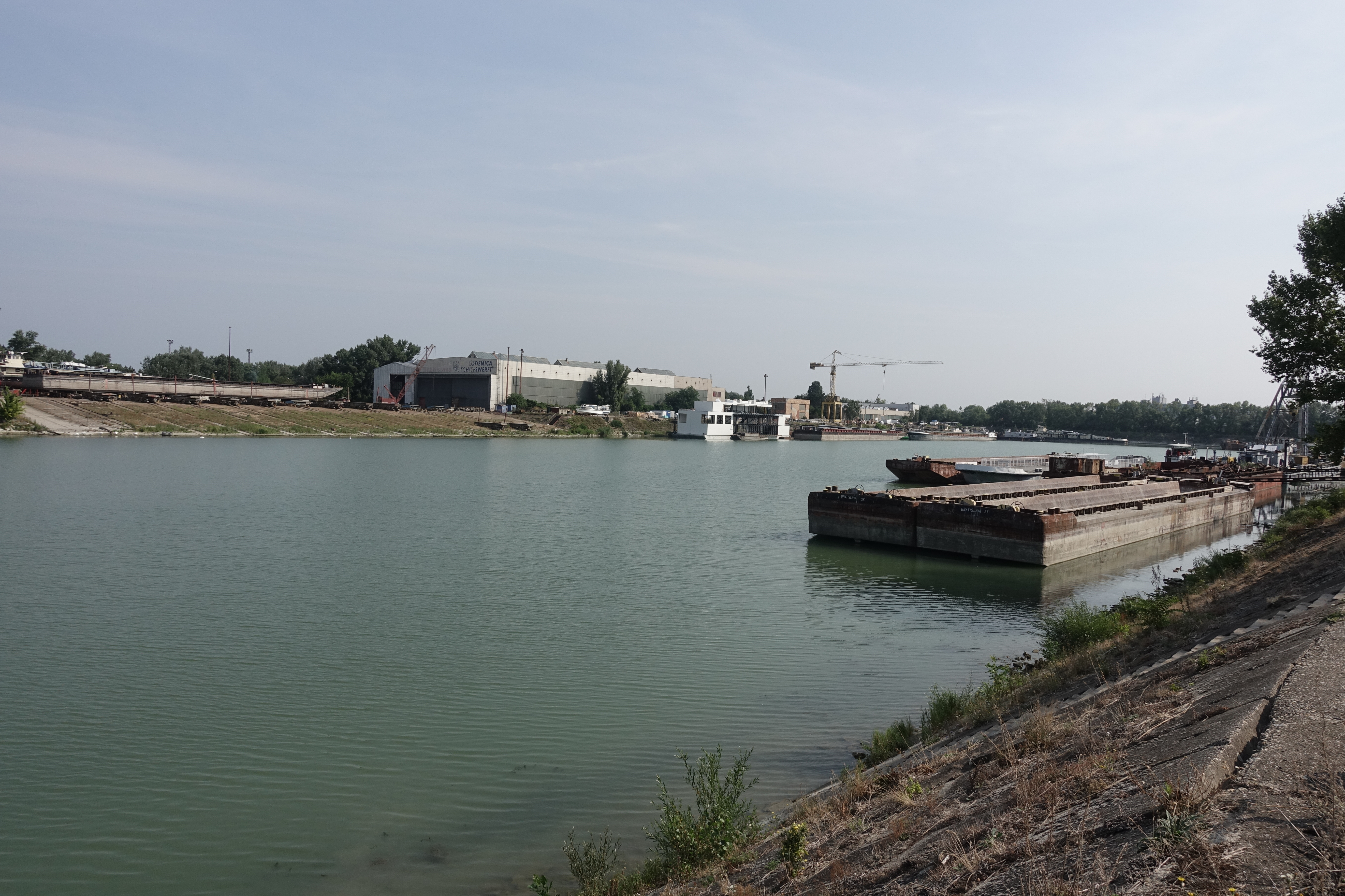 Lodenica - part of cargo port Bratislava.